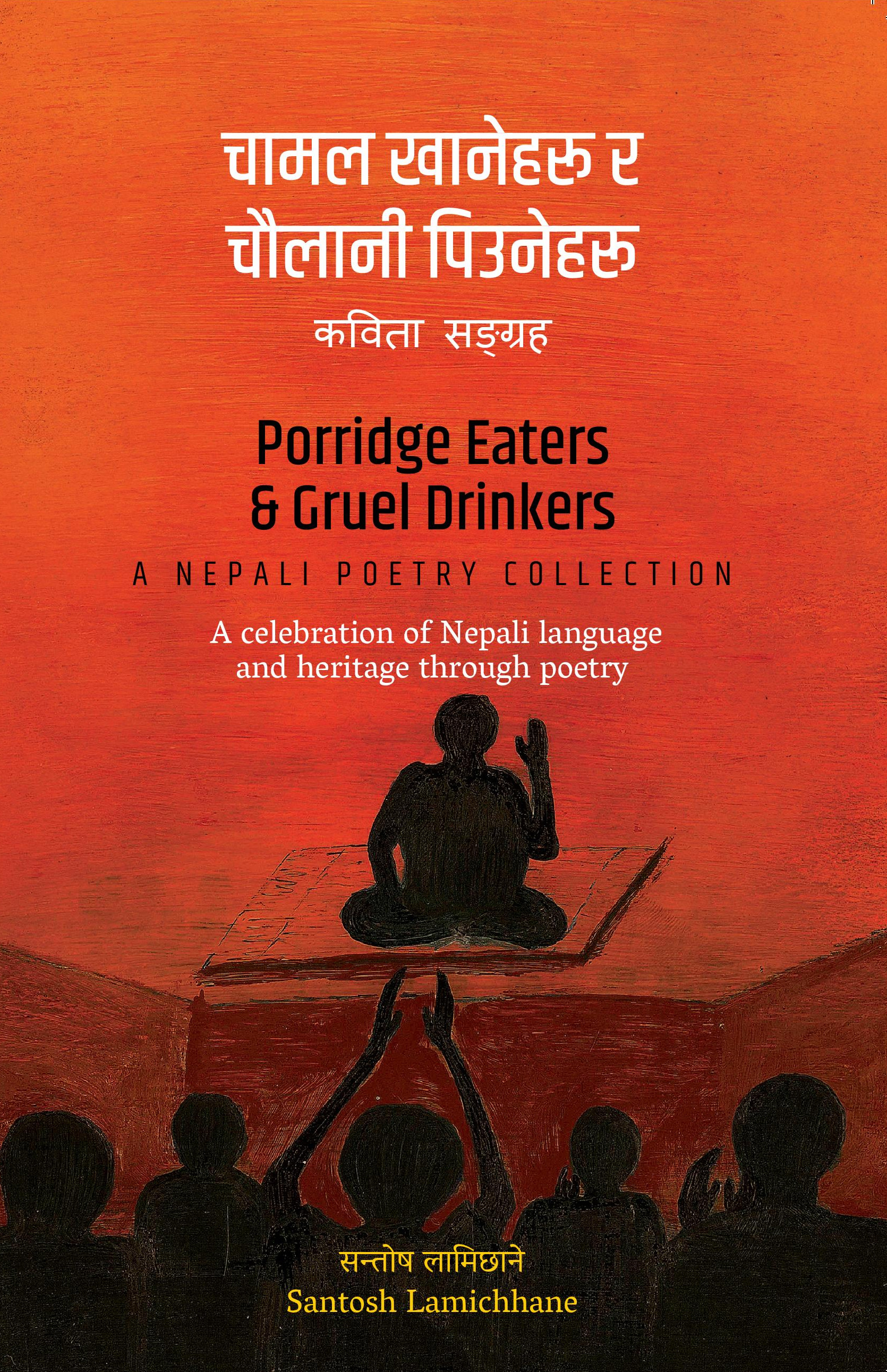 चामल खानेहरू र चौलानी पिउनेहरू/ Porridge Eaters and Gruel Drinkers